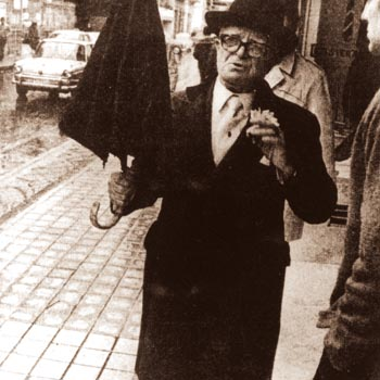 Jardín Florido (Flowered garden) (who died in July 1963), was a friendly person who greeted beautiful women who were walking in downtown Cordoba (Argentina) during the first half of the twentieth century.